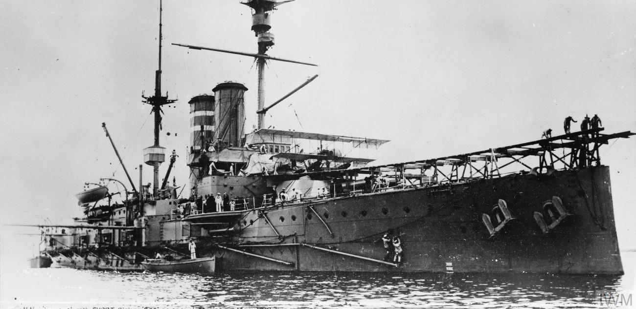 British battleship HMS Hibernia with Commander Charles Samson's aircraft perched on her temporary foredeck runway